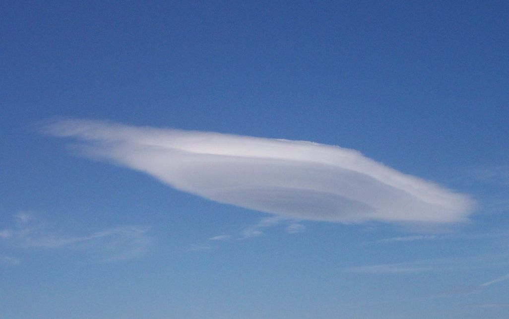 Lenticular cloud (sometimes mistaken for a UFO, by non-expert observers).